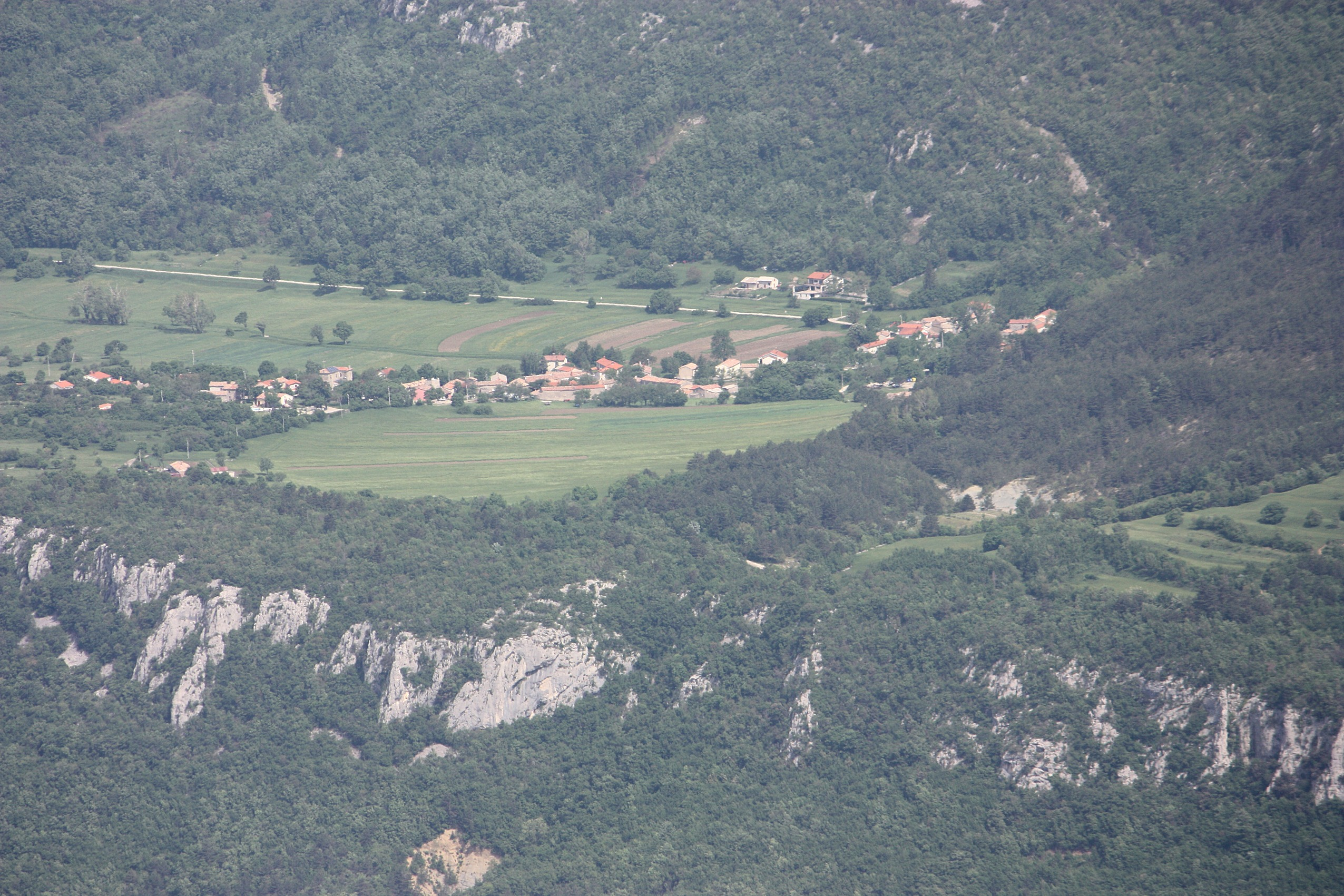 Vojak (mountain), view to Boljunsko Polje